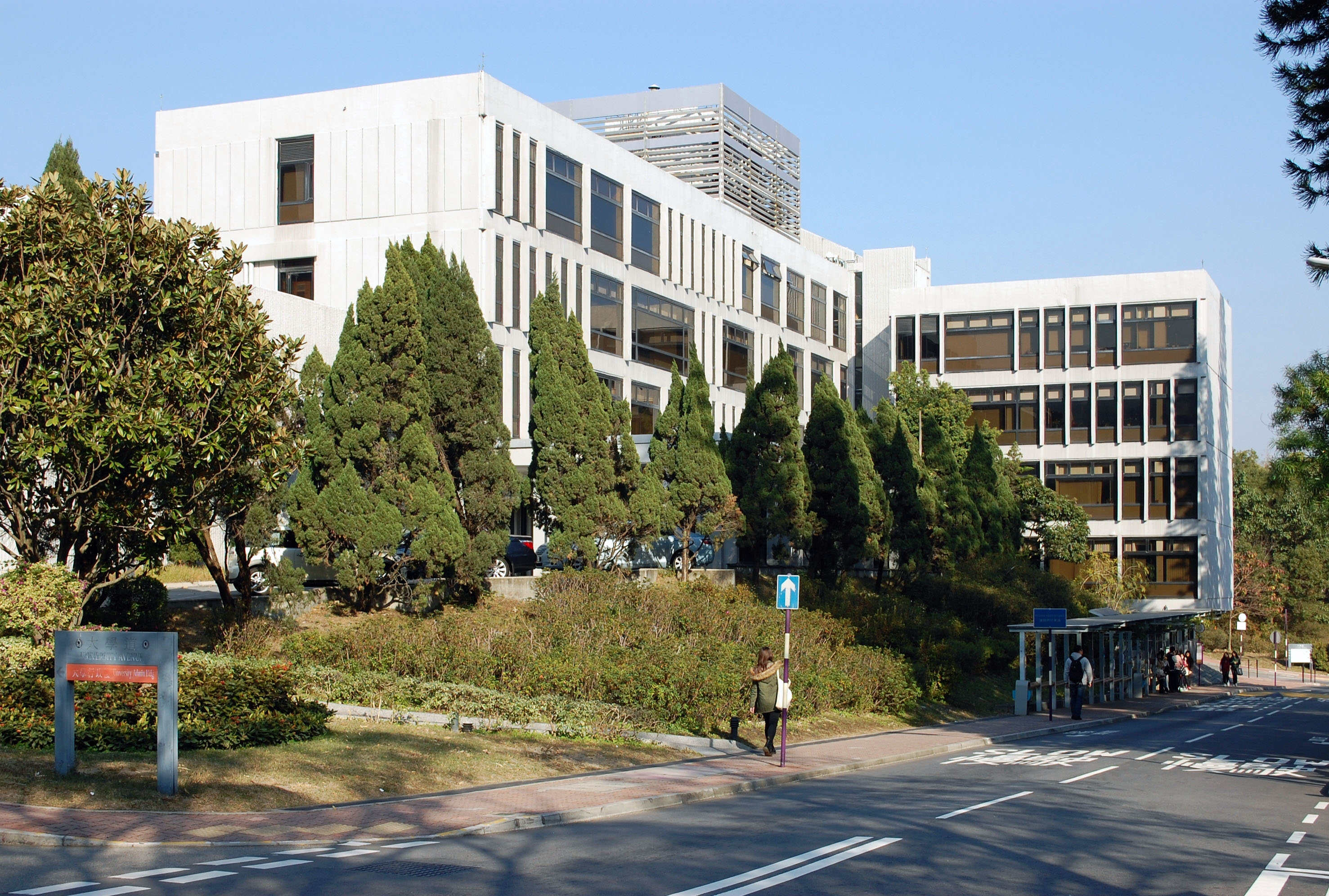 University Administration Building, Chinese University of Hong Kong. As seen from University Avenue, with school bus stop in view. 中文（香港）: 香港中文大學大學行政樓